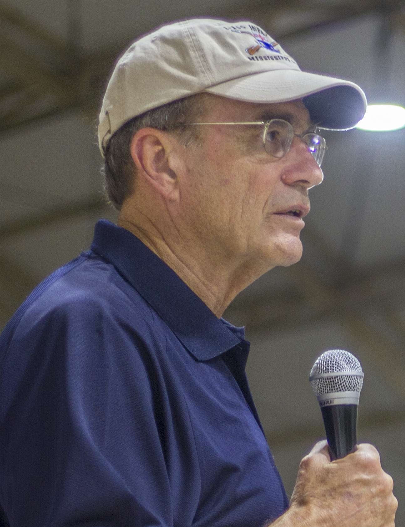 Mississippi Secretary of State Delbert Hosemann visited Mississippi troops deployed to Camp Patriot and Camp Buehring, Kuwait, October 7-11, 2018. Secretary Hosemann came to Kuwait to stress the importance of voting and assist soldiers with the absentee process. (U.S. Army National Guard photo by Spc. Jovi Prevot)